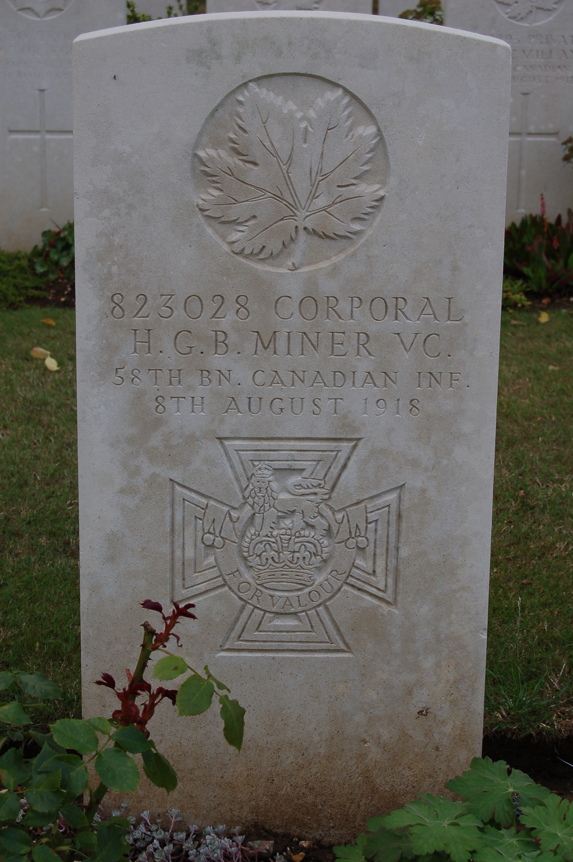 Headstone of Canadian VC recipient Harry Garnet Bedford Miner. He is buried in Crouy Military Cemetery (just outside of the village of Crouy-Saint-Pierre) in France. Miner won the VC fighting at Demuin on the first day of the Battle of Amiens, August 8th 1918